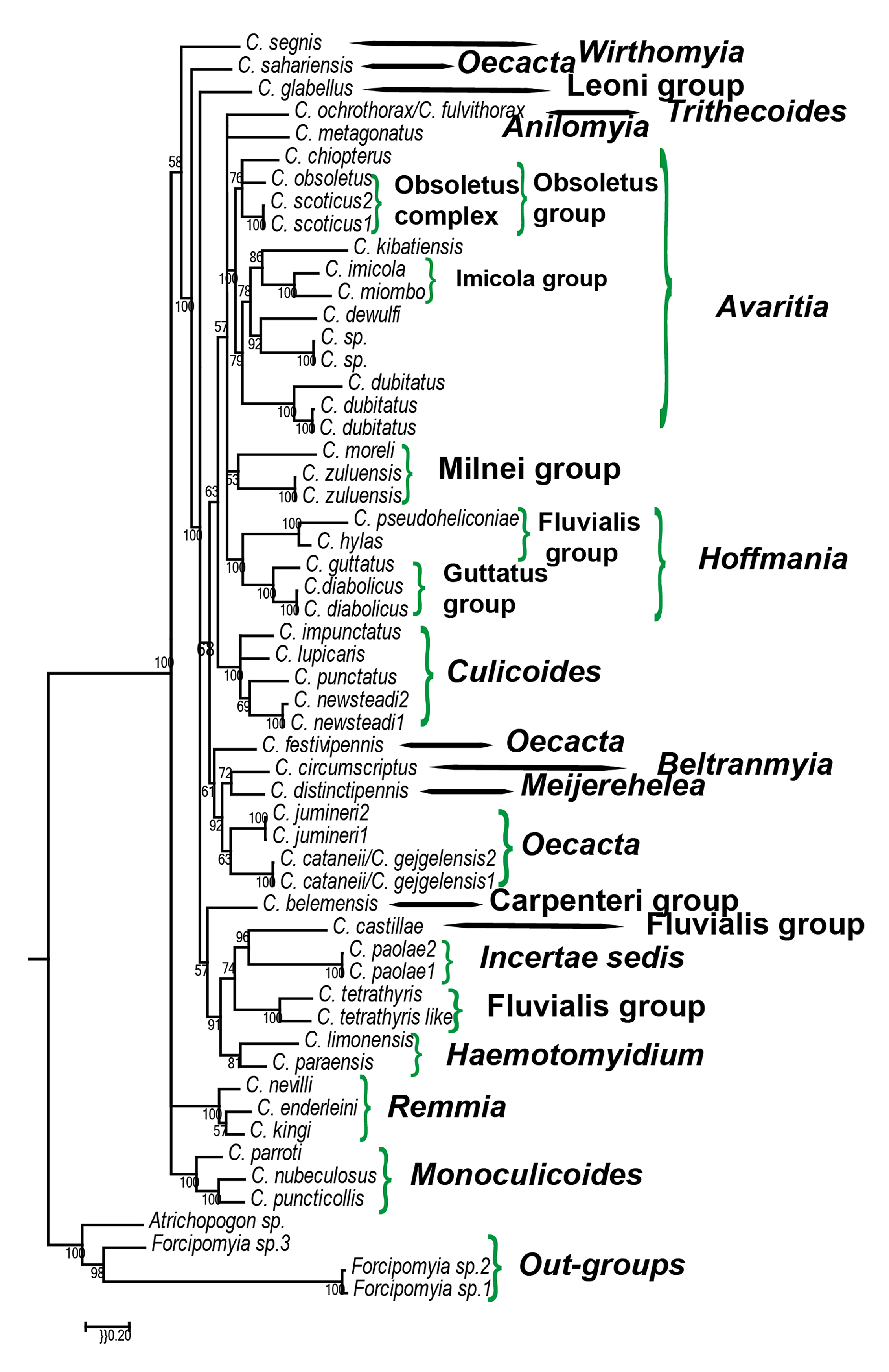 Figure 5 of paper: Bayesian tree resulting from the phylogenetic analysis of the concatenated dataset according to the best-fit partitioning strategy. Robustness of nodes is indicated by the posterior probability values (%).